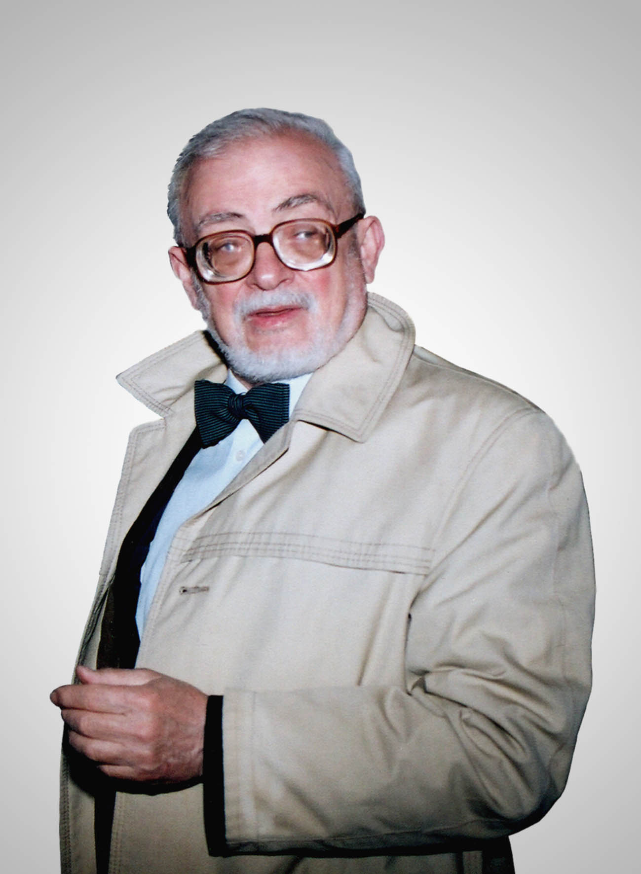 portrait